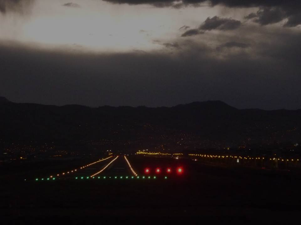 Runway 28, Aeropuerto Internacional Alejandro Velasco Astete.